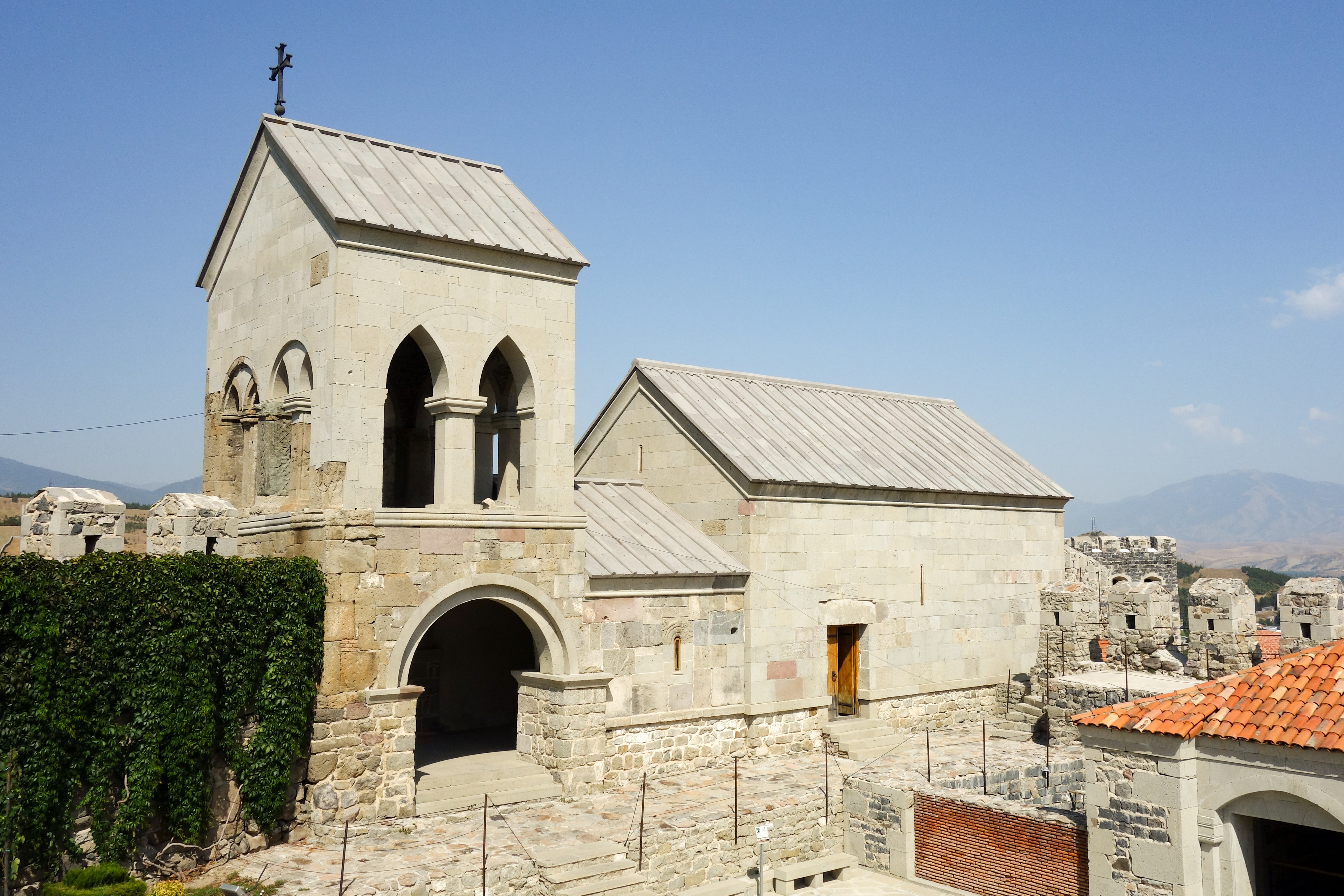 Saint George Church in Rabati, Akhaltsikhe, Georgia